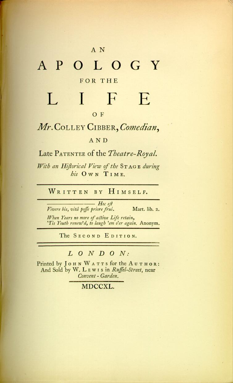 Cover of Colley Cibber, An Apology for the Life of Mr. Colley Cibber, Comedian, 2nd edition, 1740.